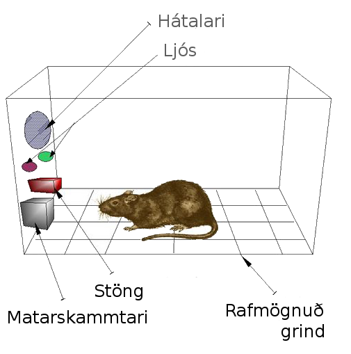 Skinner box, a cage to perform behavioural experiments with animals